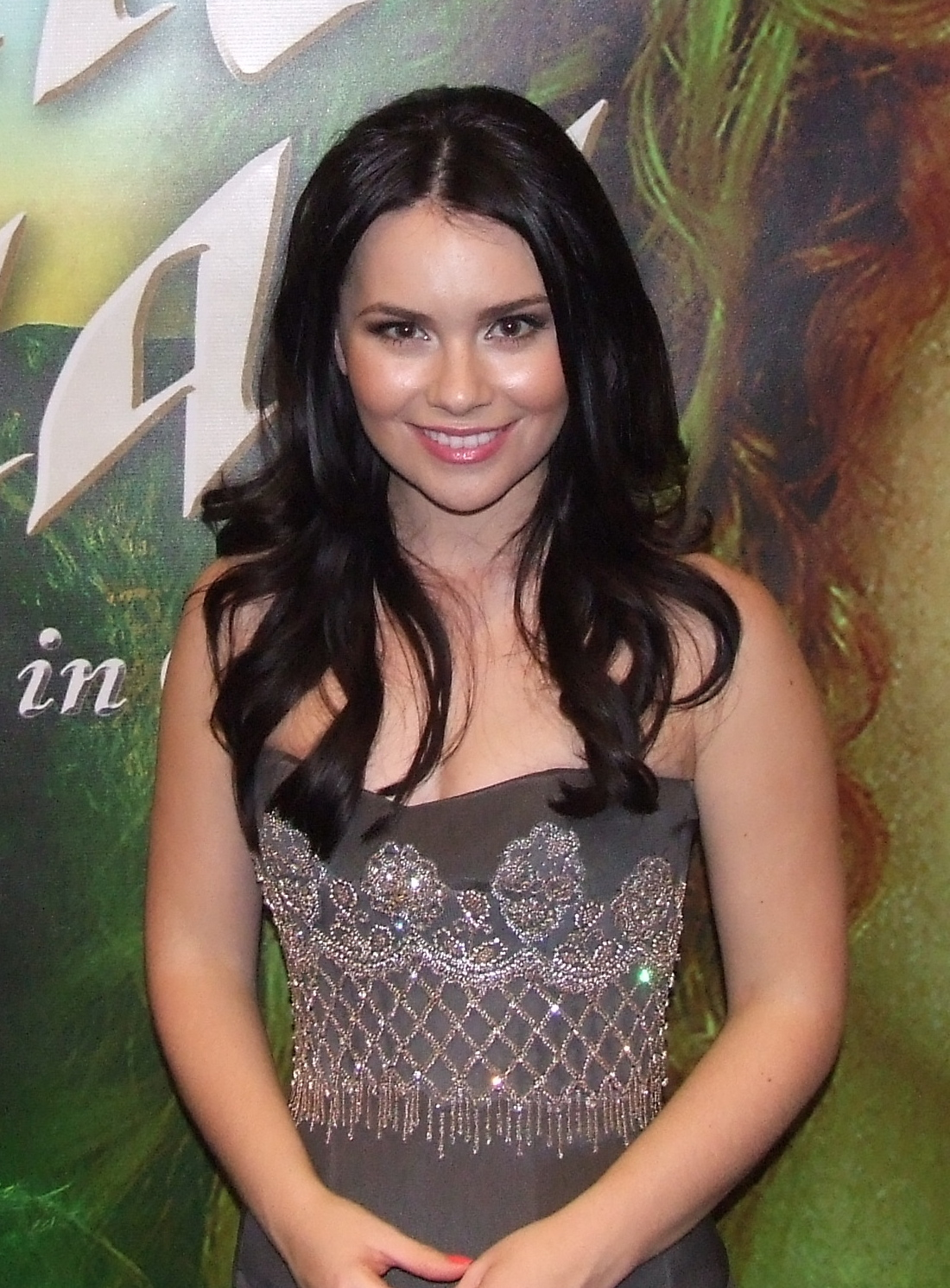 Mairead Carlin at Brisbane Concert 2014